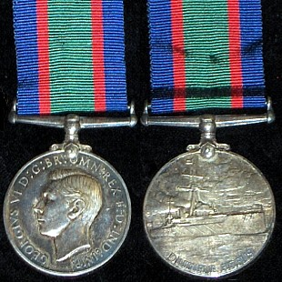 The first King George VI version of the Royal Naval Volunteer Reserve Long Service and Good Conduct Medal